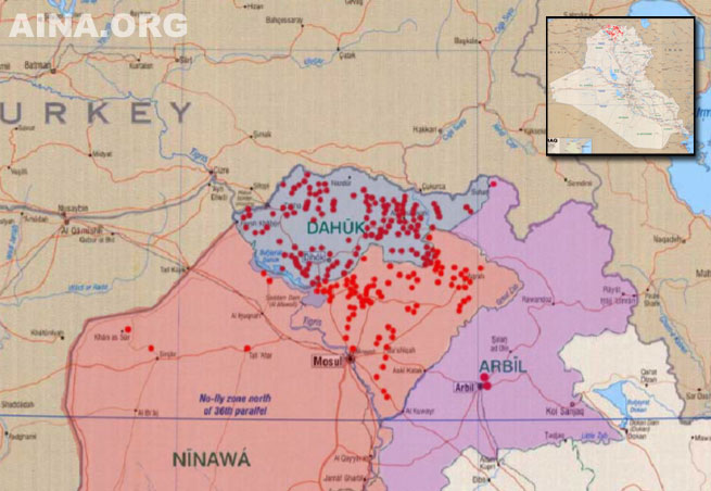 A call of autonomy in 2003 for Chaldo-Assyrians. Iraqi Assyrians Seek Self Administered Region